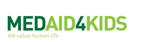 logo